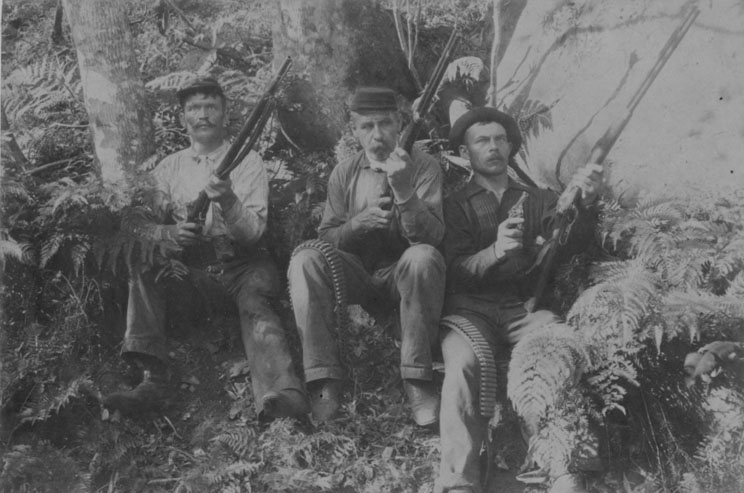 National guardsmen in hunt for "lepers," Kalalau Valley, Kauai.